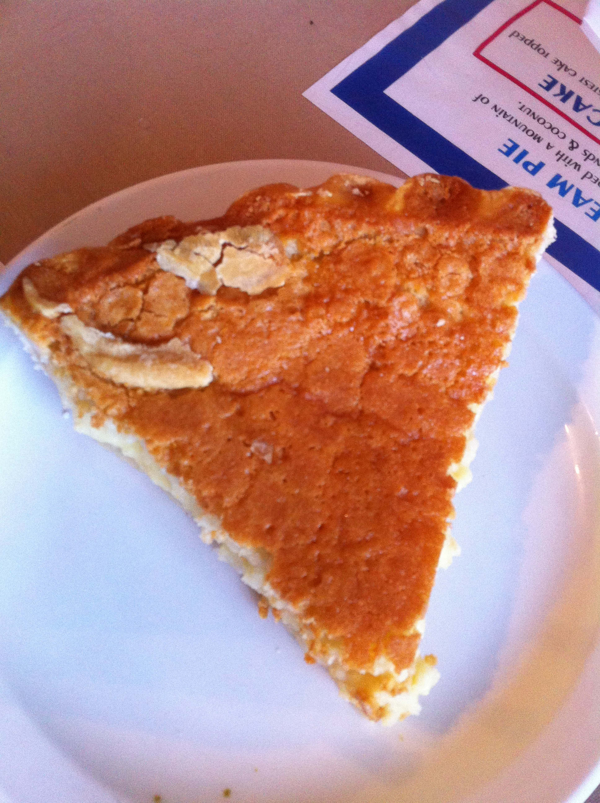 Peanut Butter Pie, Seabrook Classic Cafe